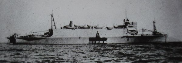 Imperial Japanese Army landing vehicle carrier Shinshū Maru